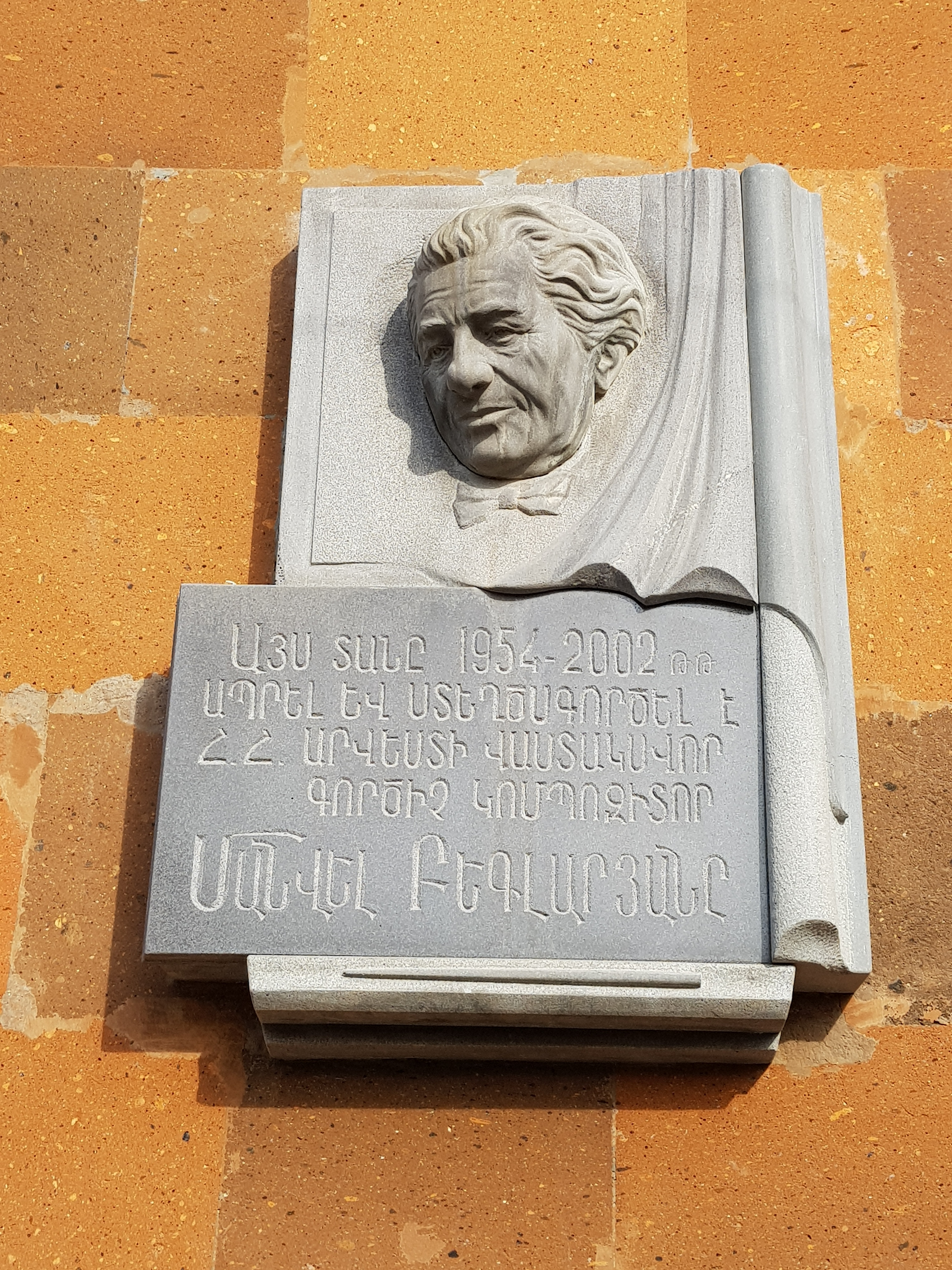 Manvel Beglaryan's plaque